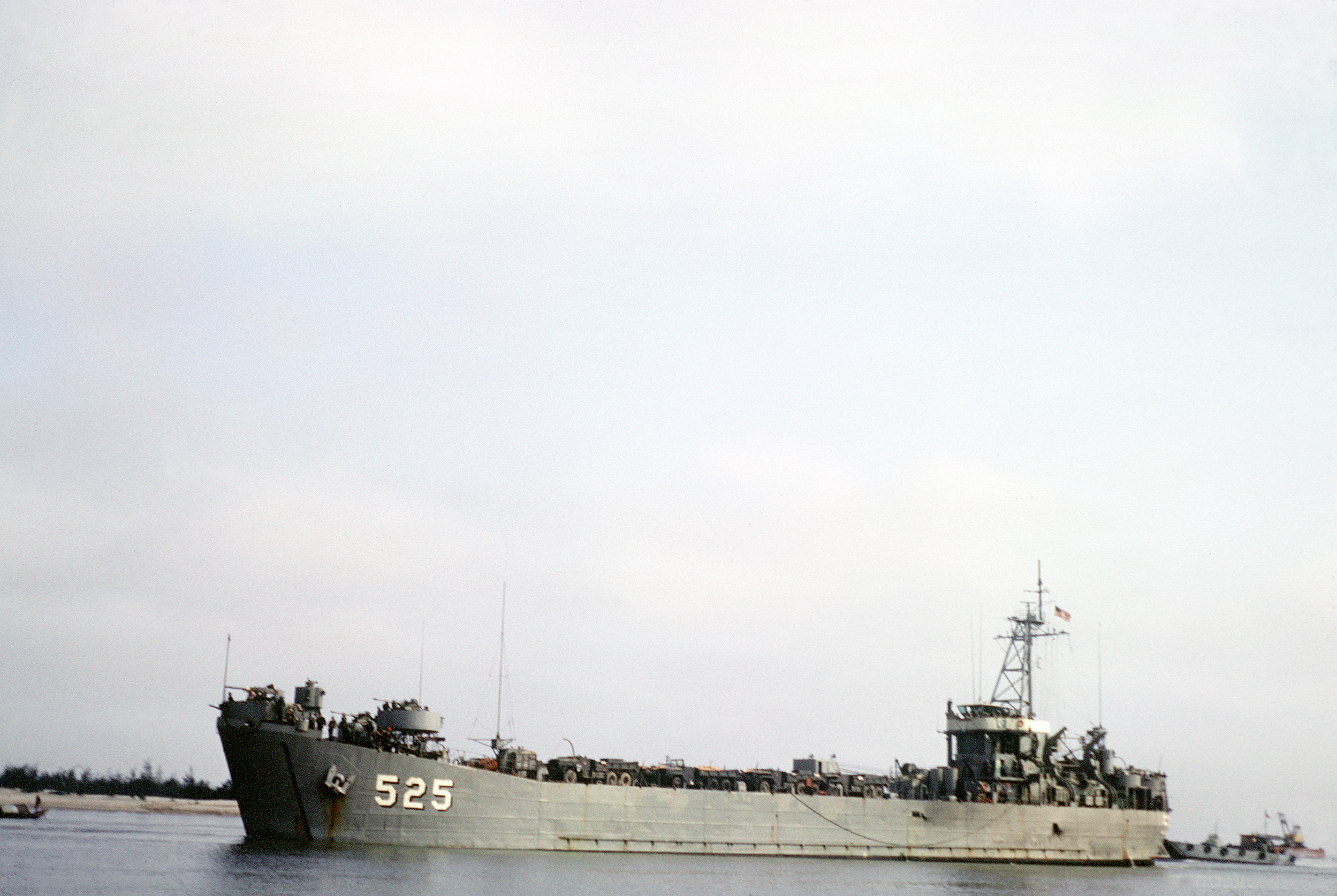 The U.S. tank landing ship USS Caroline County (LST-525) on the Cua Viet River in South Vietnam, on 15 March 1967. The Caroline County was the first LST to dock at Cua Viet.